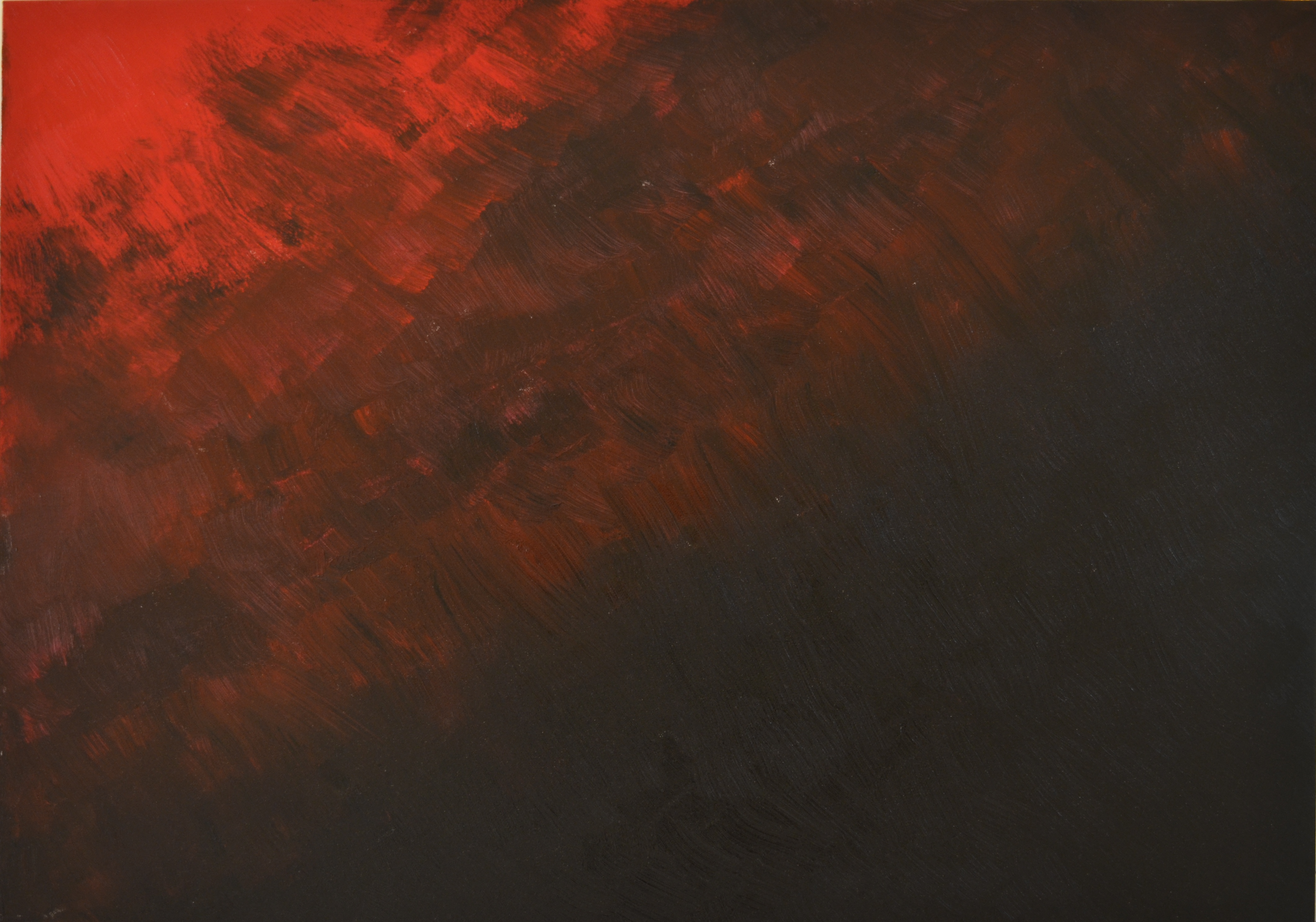 Example of abstract painting, Natalia Plachta Fernandes, color field painting